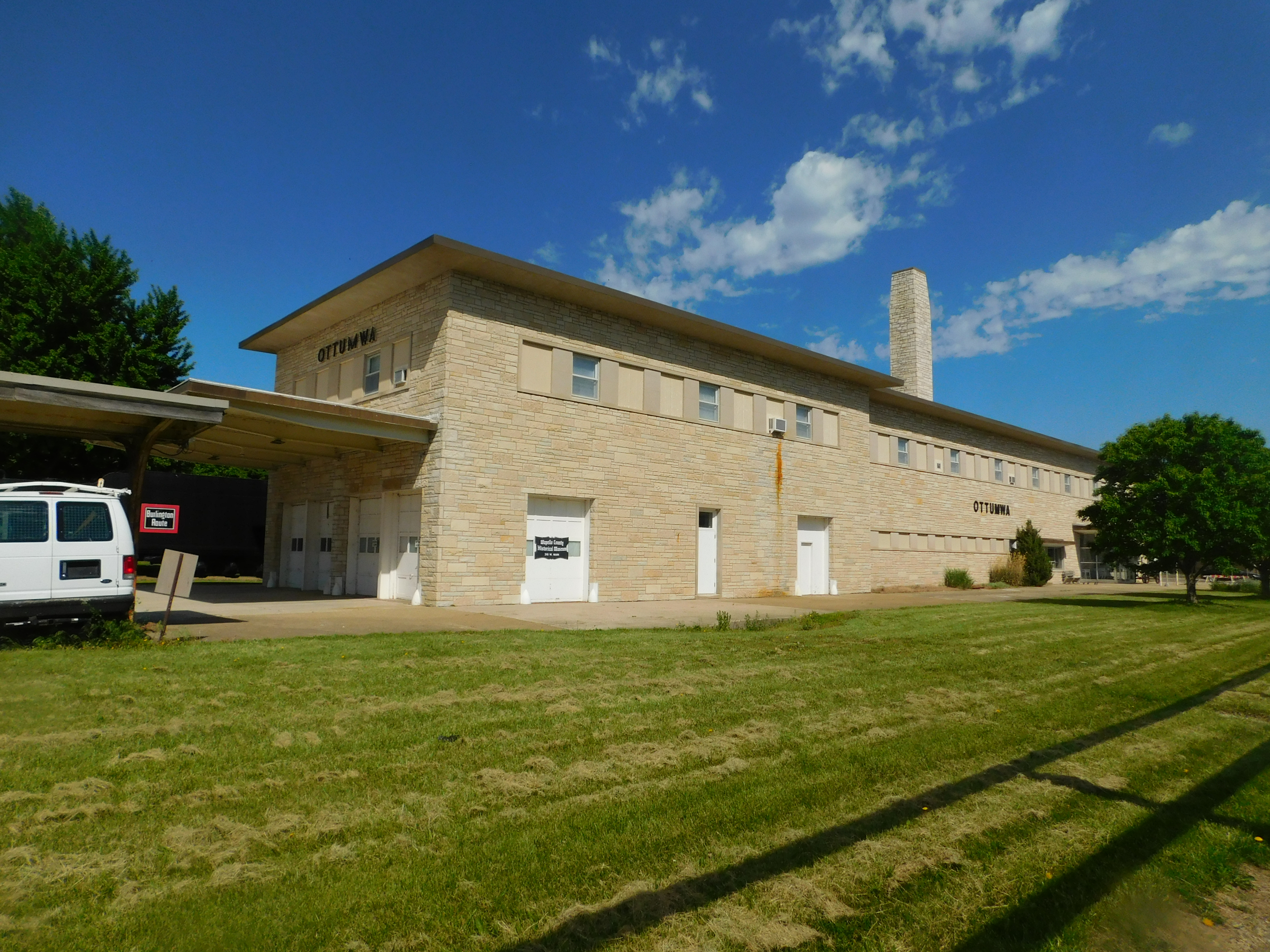 The Amtrak station in Ottumwa, Iowa in May 2017.